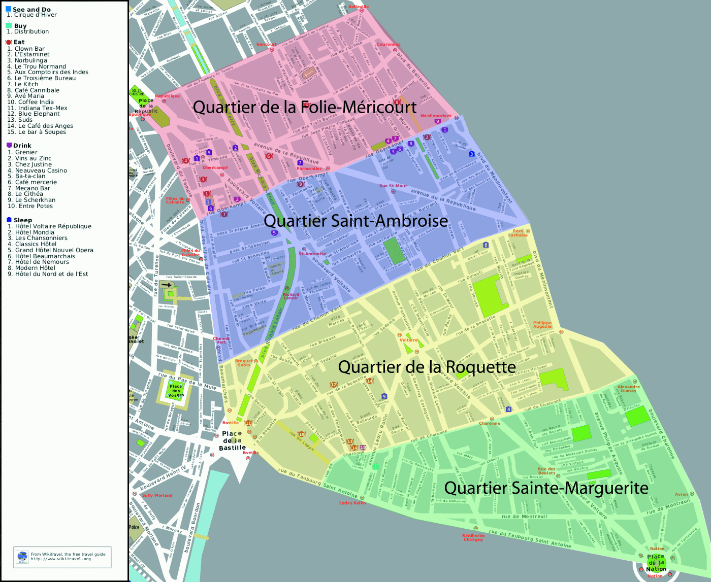 Map of the 11th arrondissement of Paris. Map created by Mark Jaroski for Wikitravel and adapted to show "quartiers".